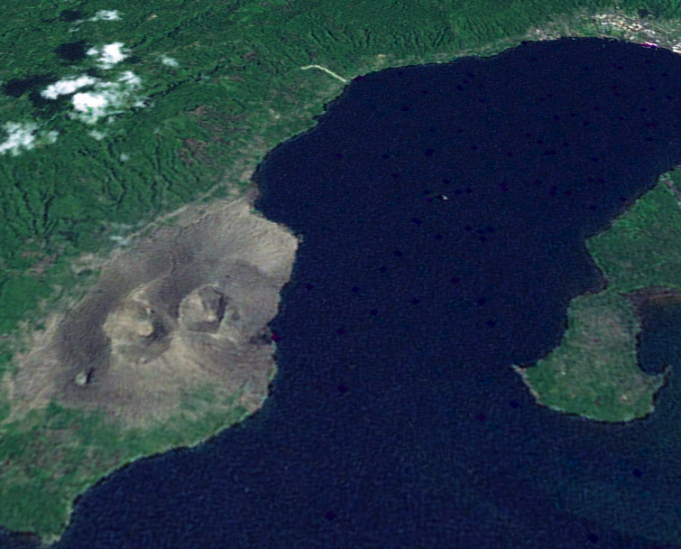 NASA World Wind image of Vulcan vent of the Rabaul Caldera